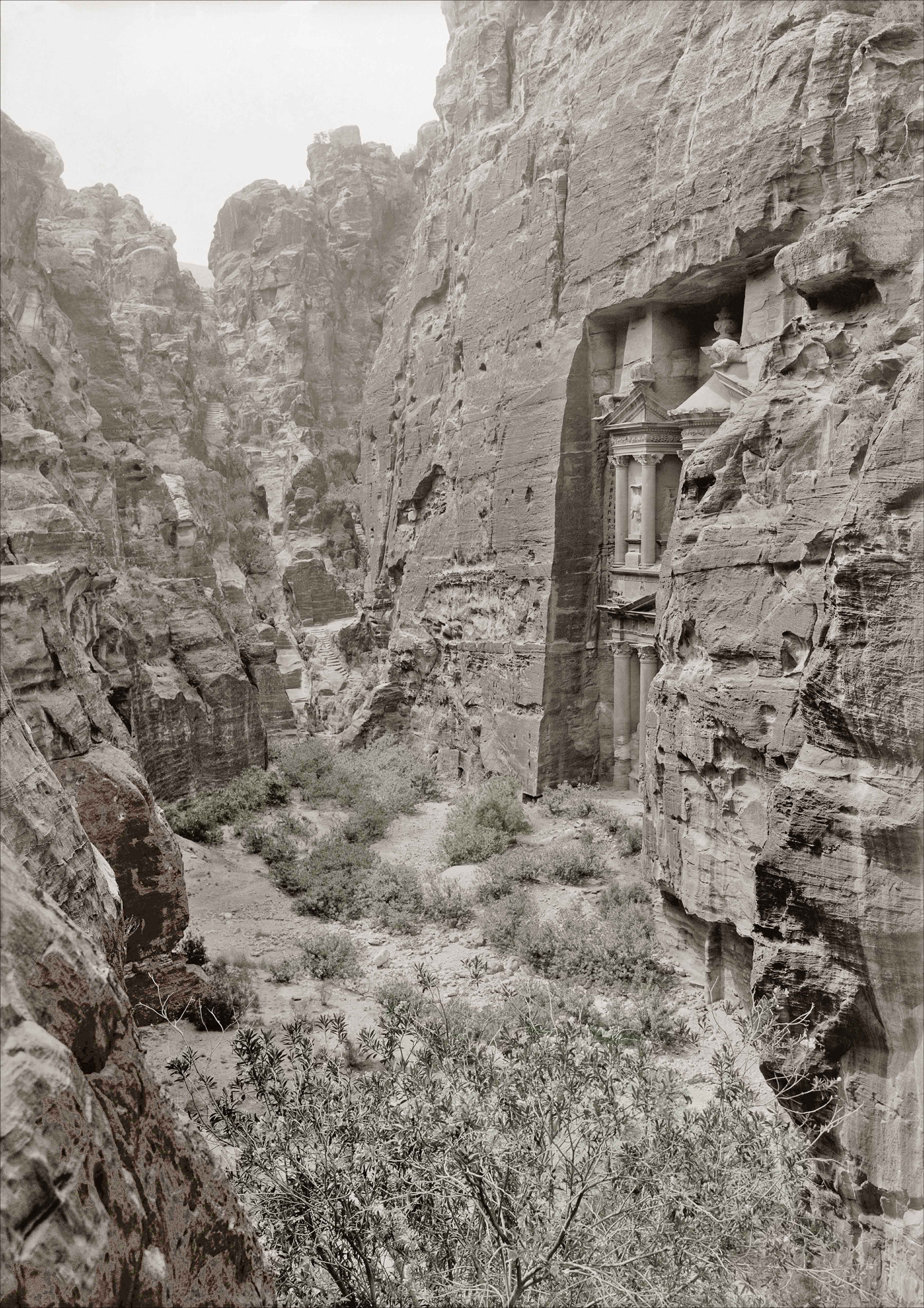 Petra. The wadi Musa in front of the Khazneh around 1940.